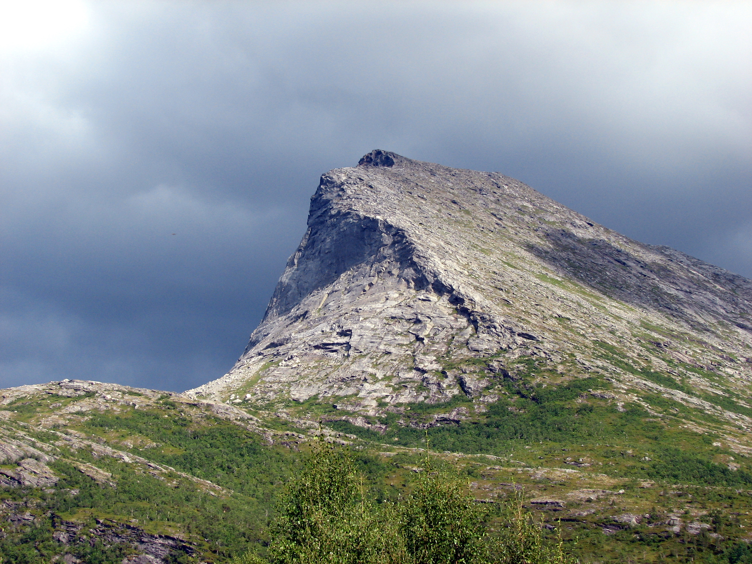 Eidetinden, Kjerringøy, Bodø